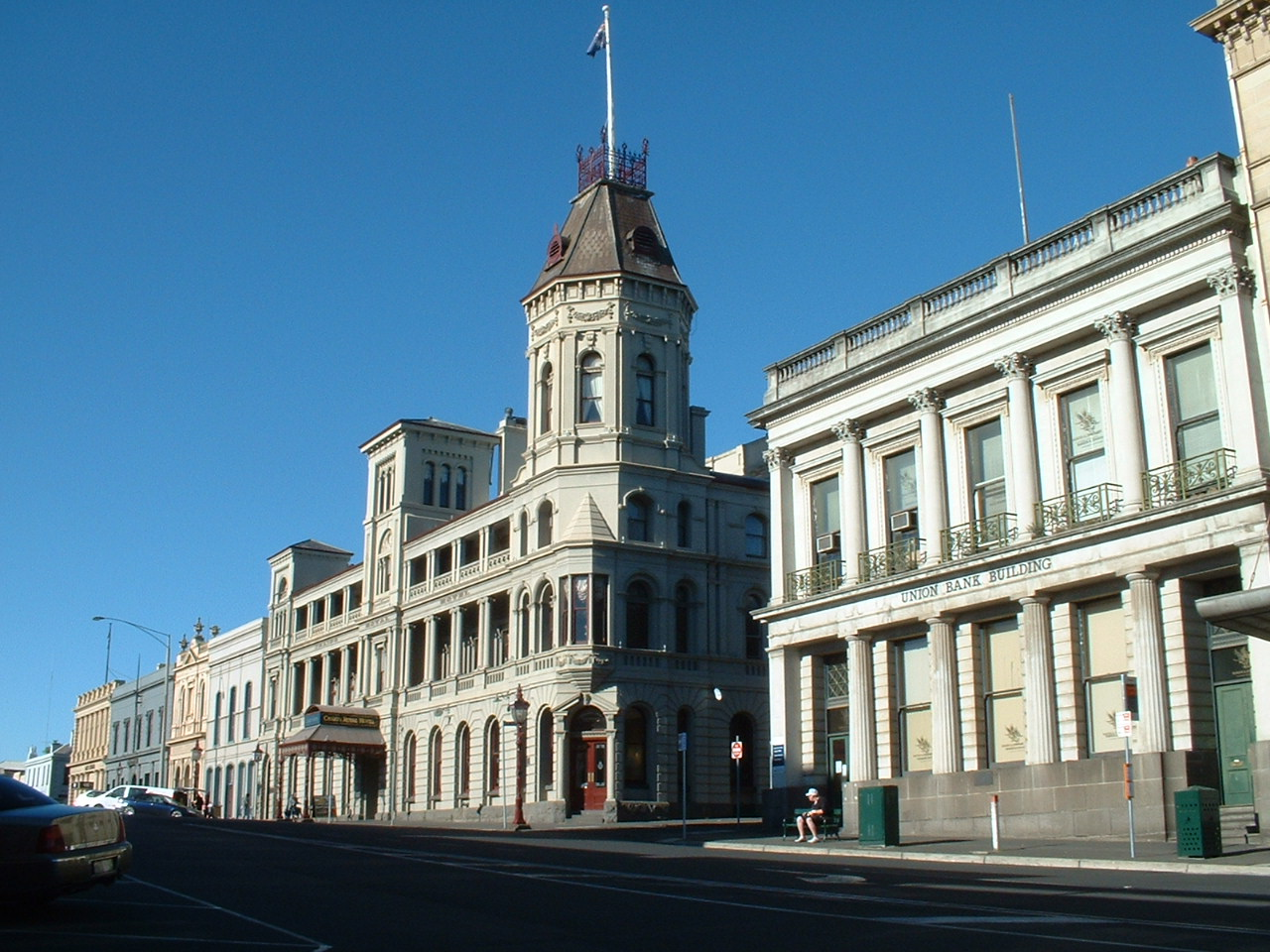 A view along the west side of Lydiard Street South, Ballarat, Victoria, showing the row of historic buildings. Craig's Royal Hotel is the building with the tower.